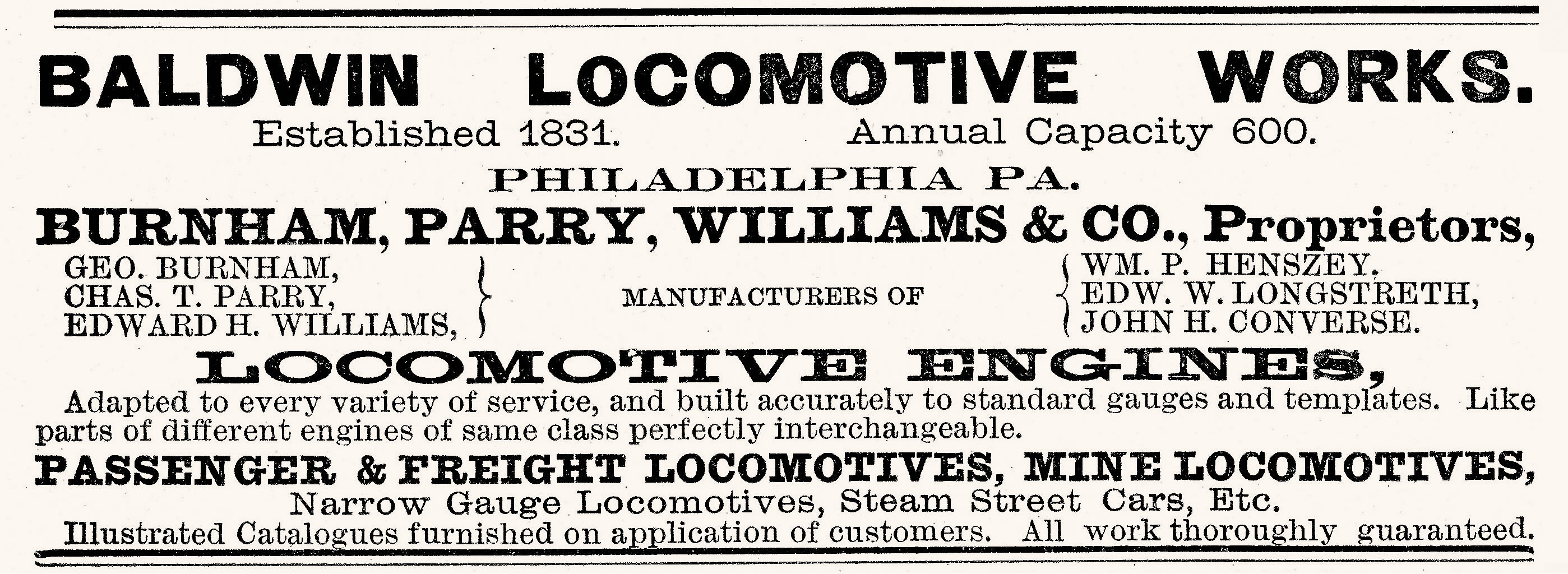 Baldwin Locomotive Works advertisement published in the "The Railway Review", Vol. XXII, No. 35 Chicago, September 2, 1882